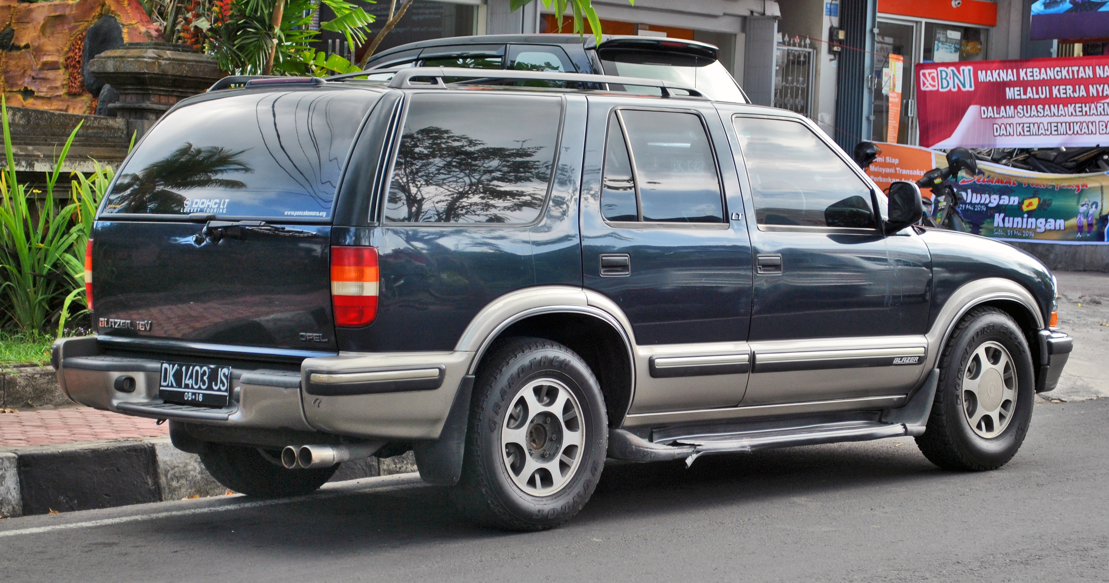 Opel Blazer (Indonesian-market Chevrolet S-10 Blazer) photographed in Amlapura, Karangasem Regency, Bali, Indonesia. Original one, except nonstandard exhaust.